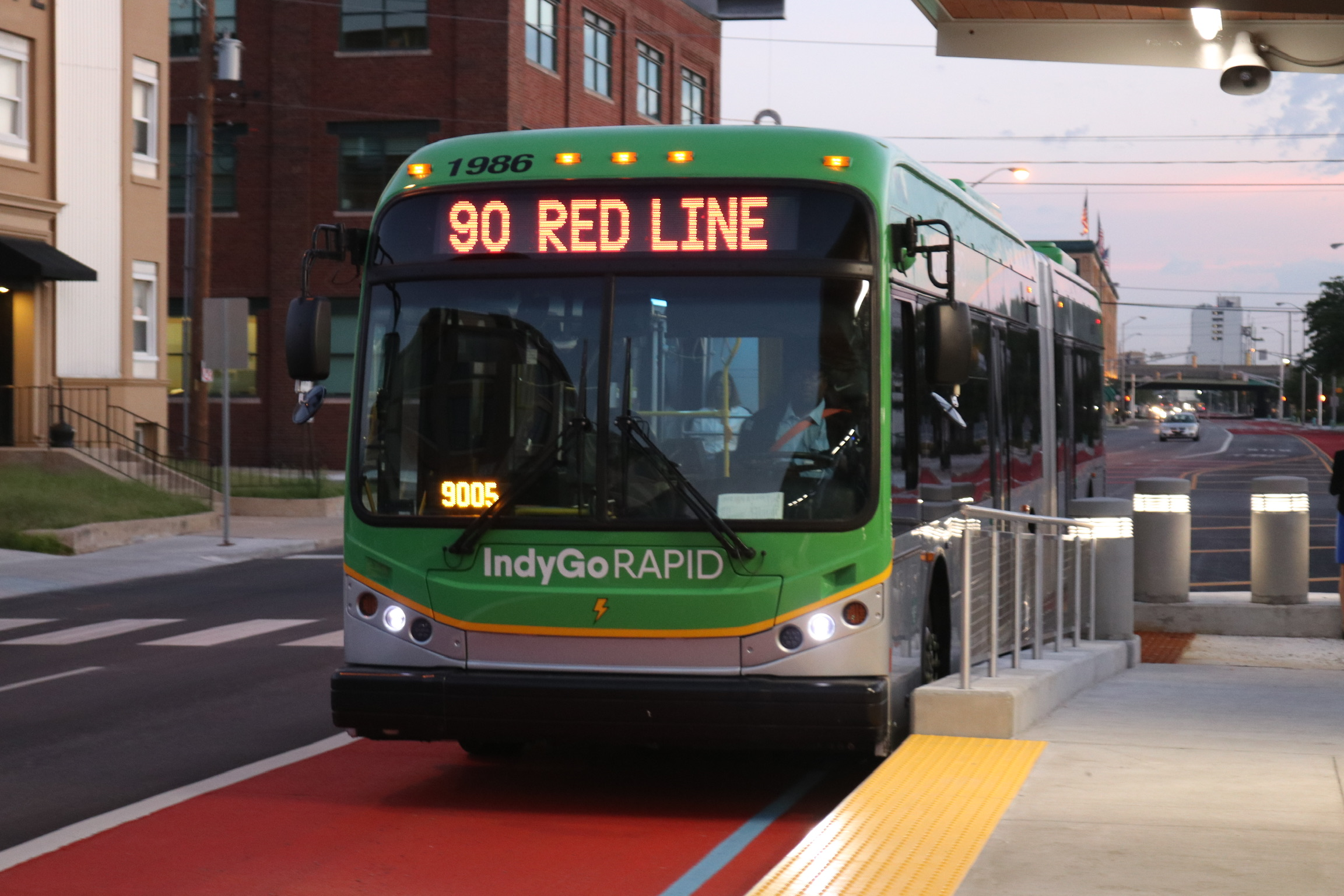 IndyGo Red Line opening, 2019.